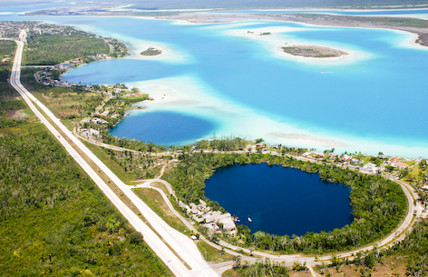 View to Bacalar Cenote (